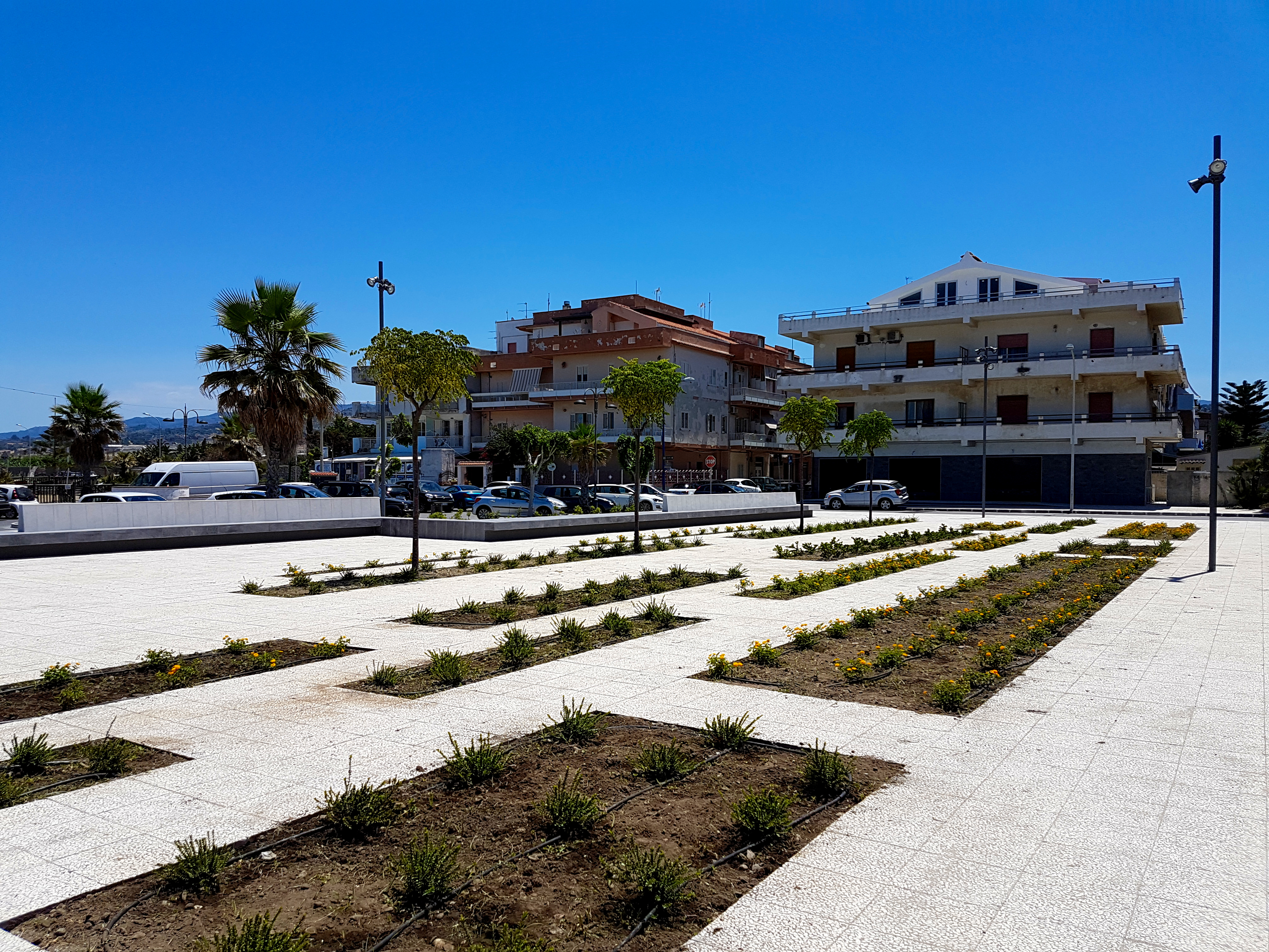 Peppino Impastato square in Torregrotta, Italy.